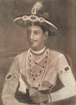 Zain ud-din Ali Khan